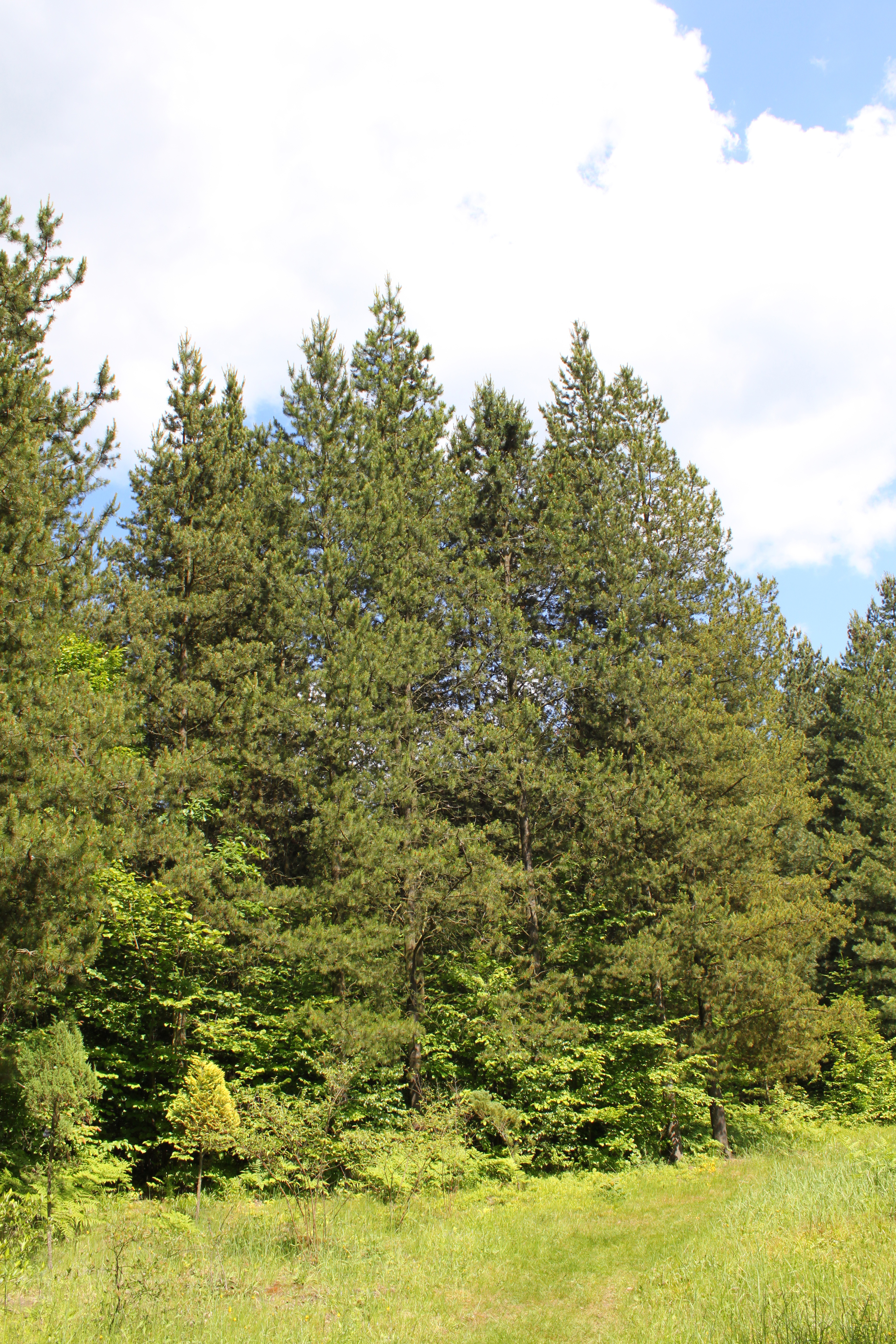 Pinus contorta subsp. latifolia in Rogów Arboretum, Poland